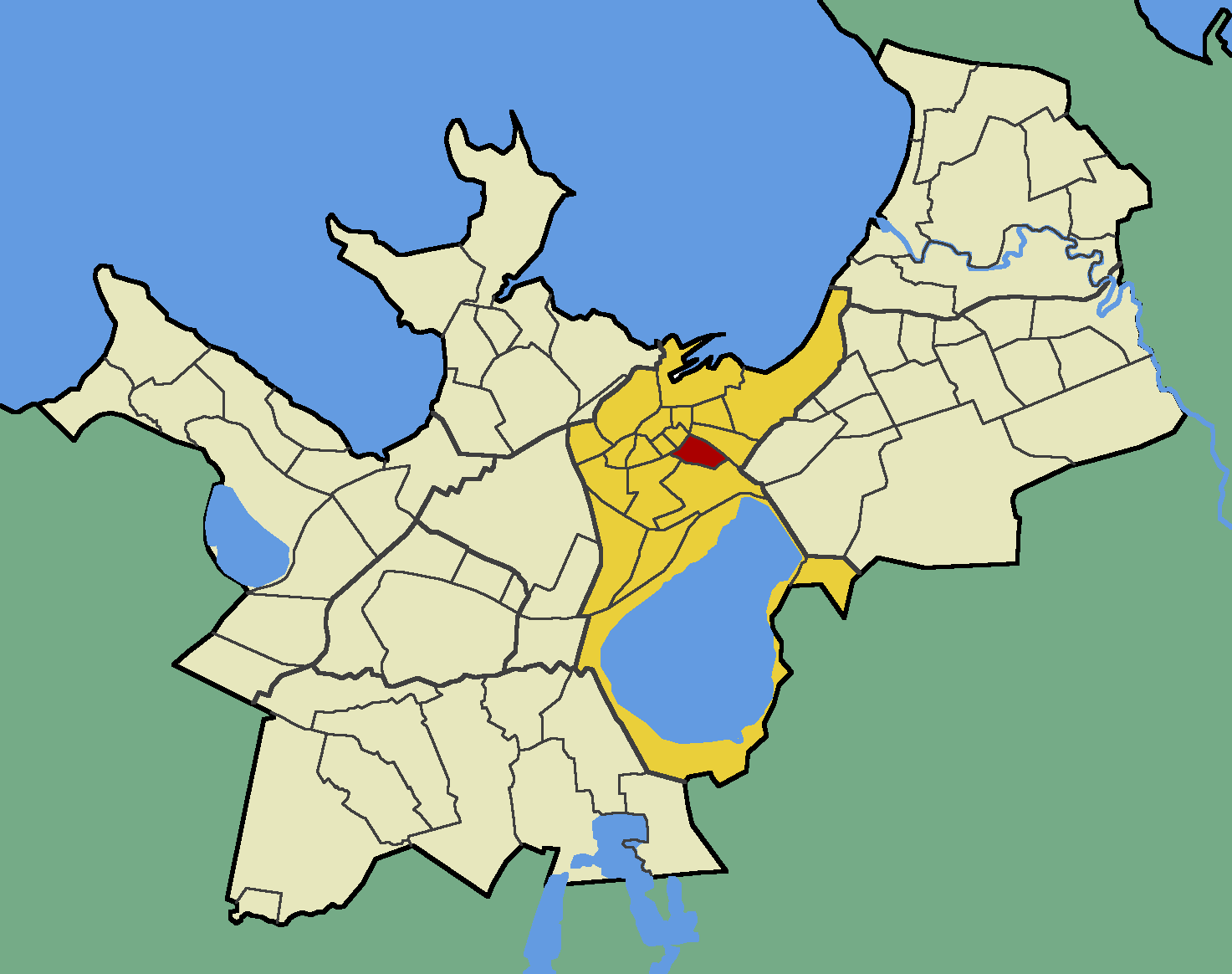 Map of Tallinn (Estonia) with borders of the quarters, Kesklinn district and Keldrimäe quarter emphasised